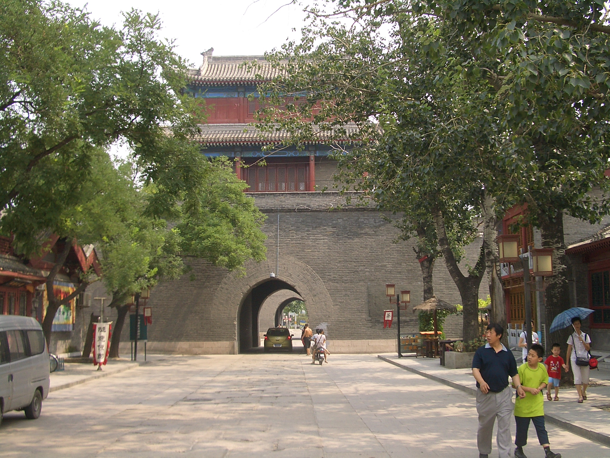 The east gate of Wanping Castle, Beijing